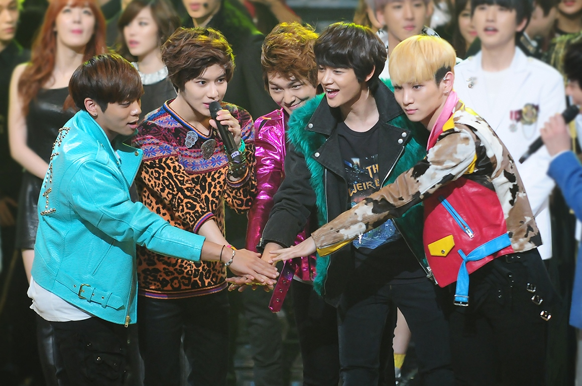 Shinee at the MBC Gayo Daejejeon on December 31, 2012.